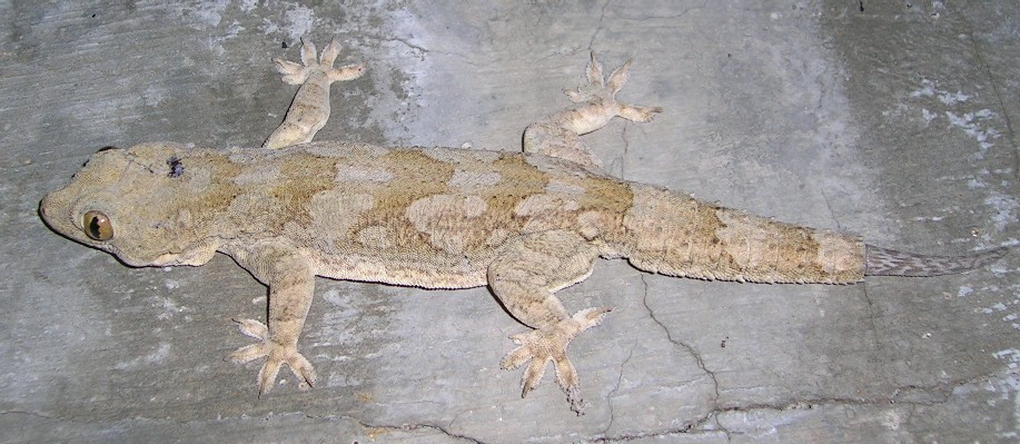 Hemidactylus sp. Dindigul, Tamilnadu Feb 2006 Photograph by L. Shyamal